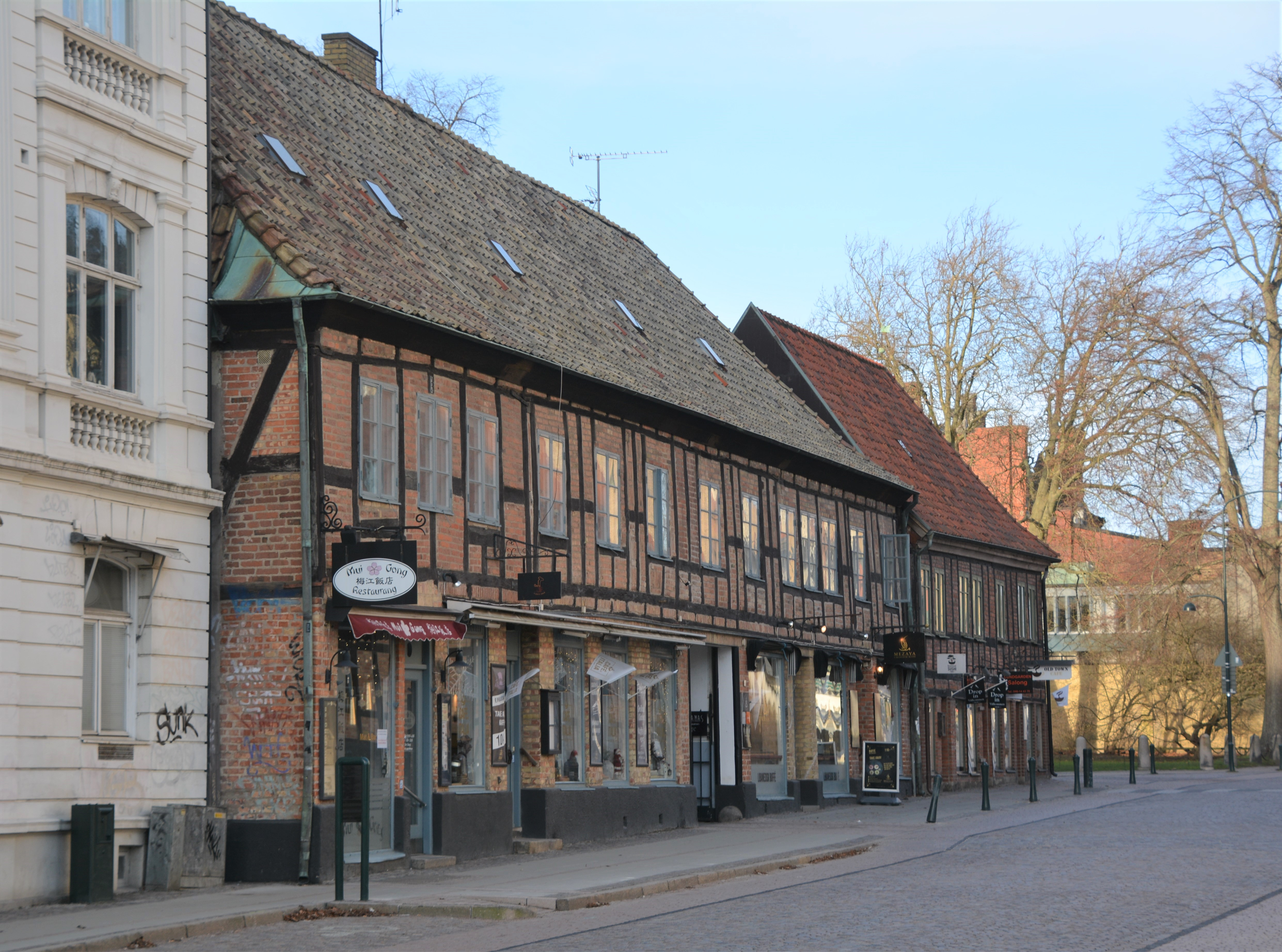 Liljewalchska huset, Kyrkogatan, Lund